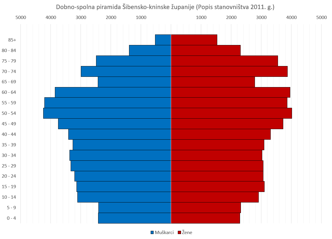 Population pyramid of Šibenik-Knin County. Version in Croatian. Data from 2011 Census; available at